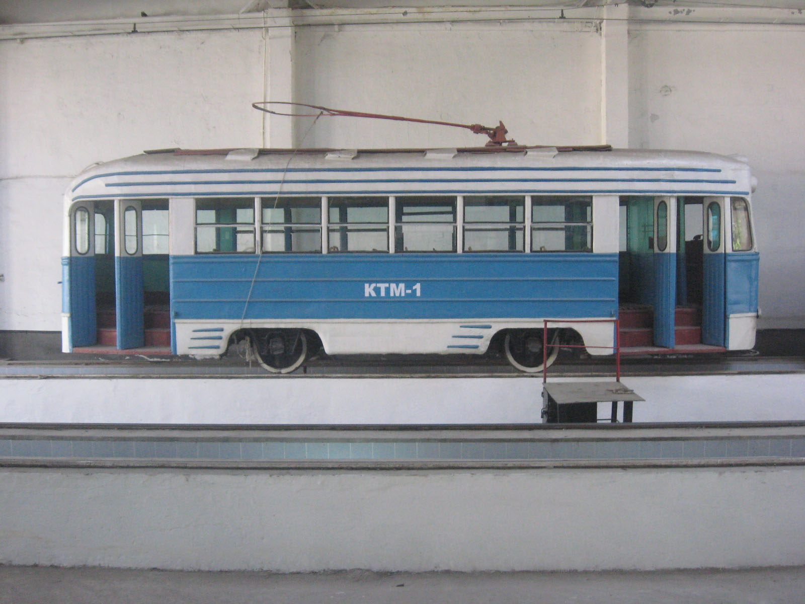 KTM-1 wagon in Electric vehicles museum of Uzbekistan